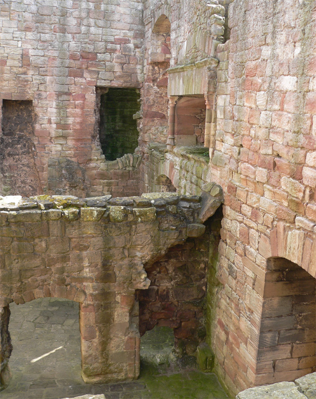 Crichton Castle, Midlothian, Scotland - part of great hall of chancellor Crichton